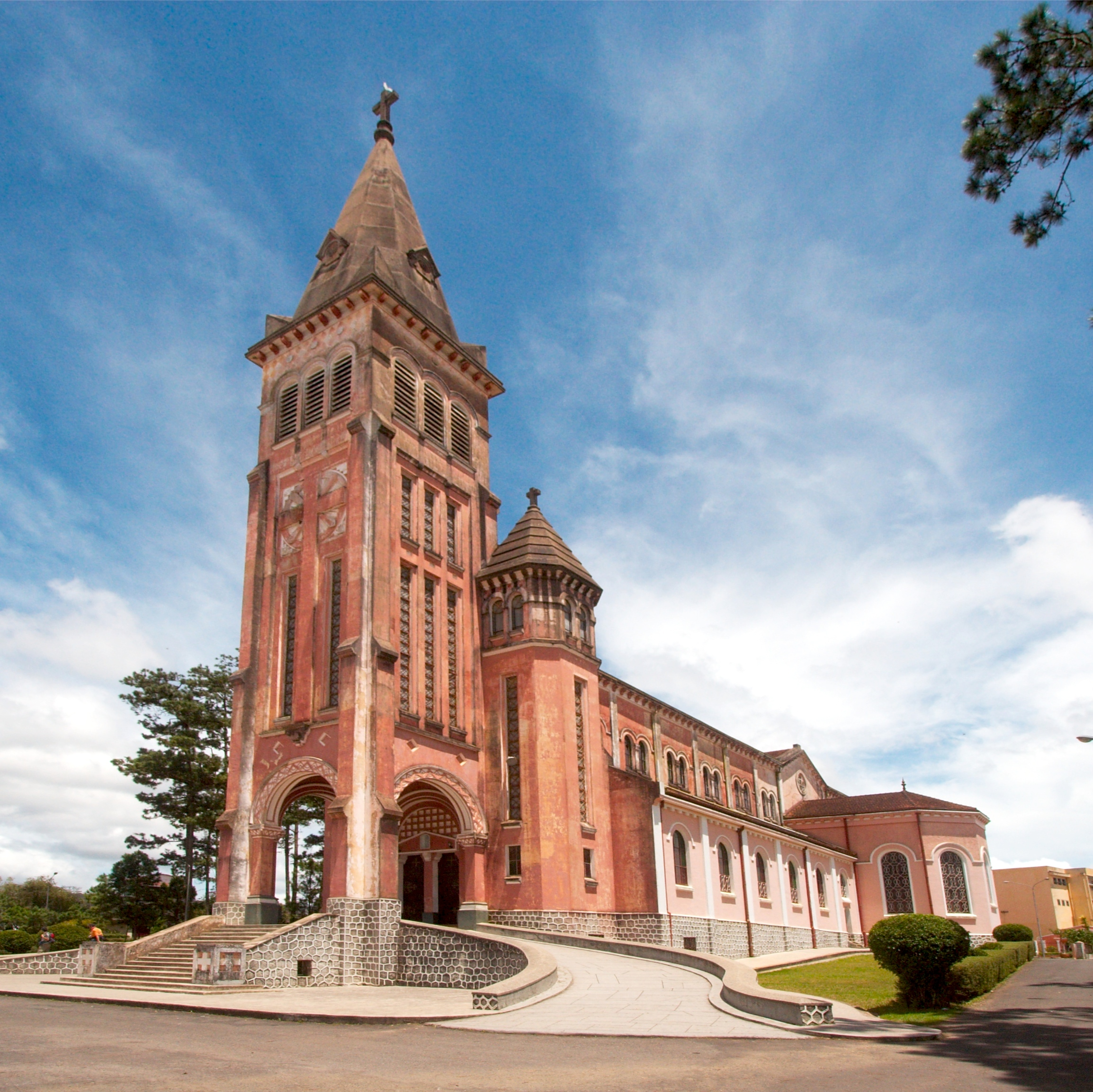 Cathedral of Da Lat